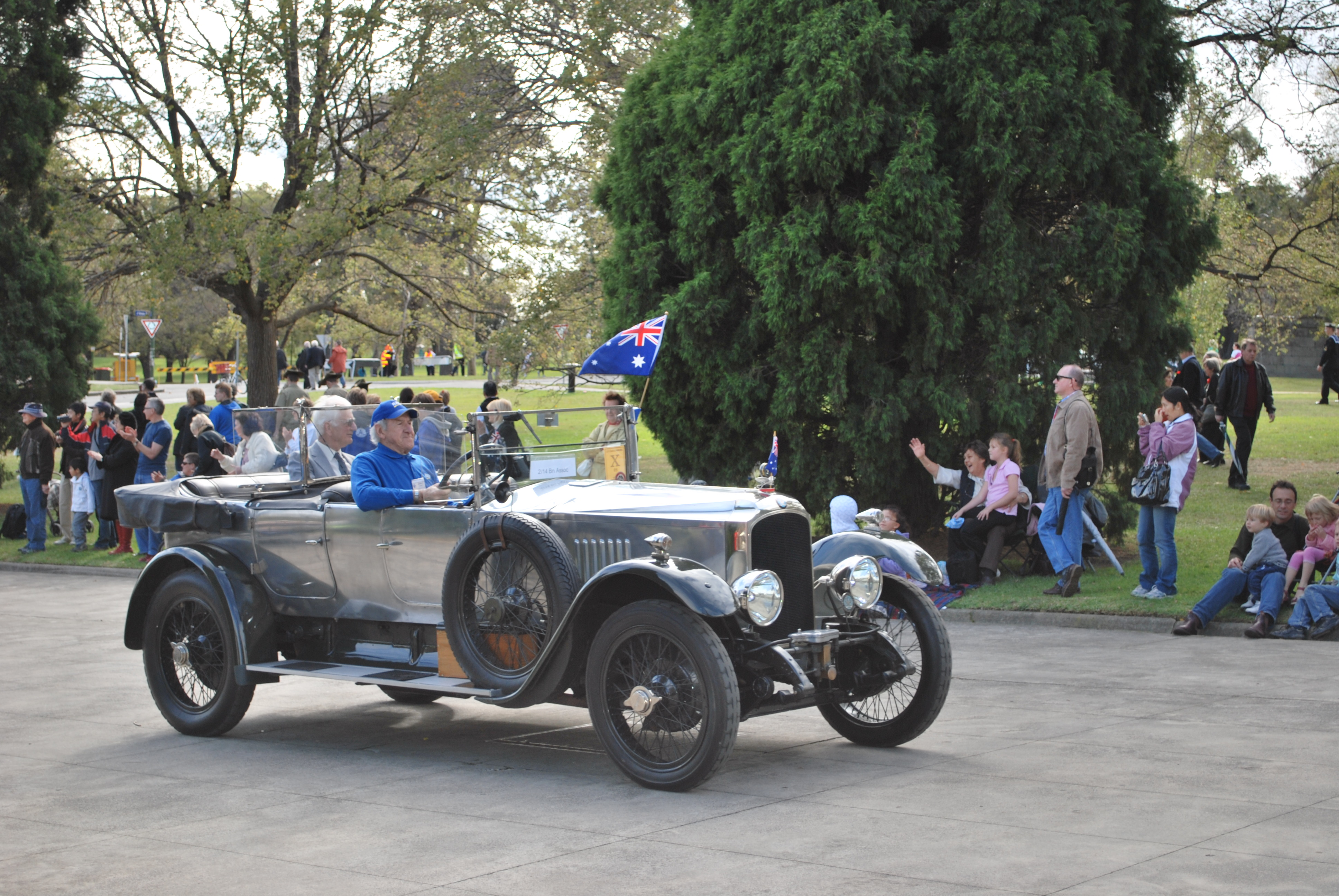 A vintage car in the Anzac Day march in 2009 2/14th Battalion